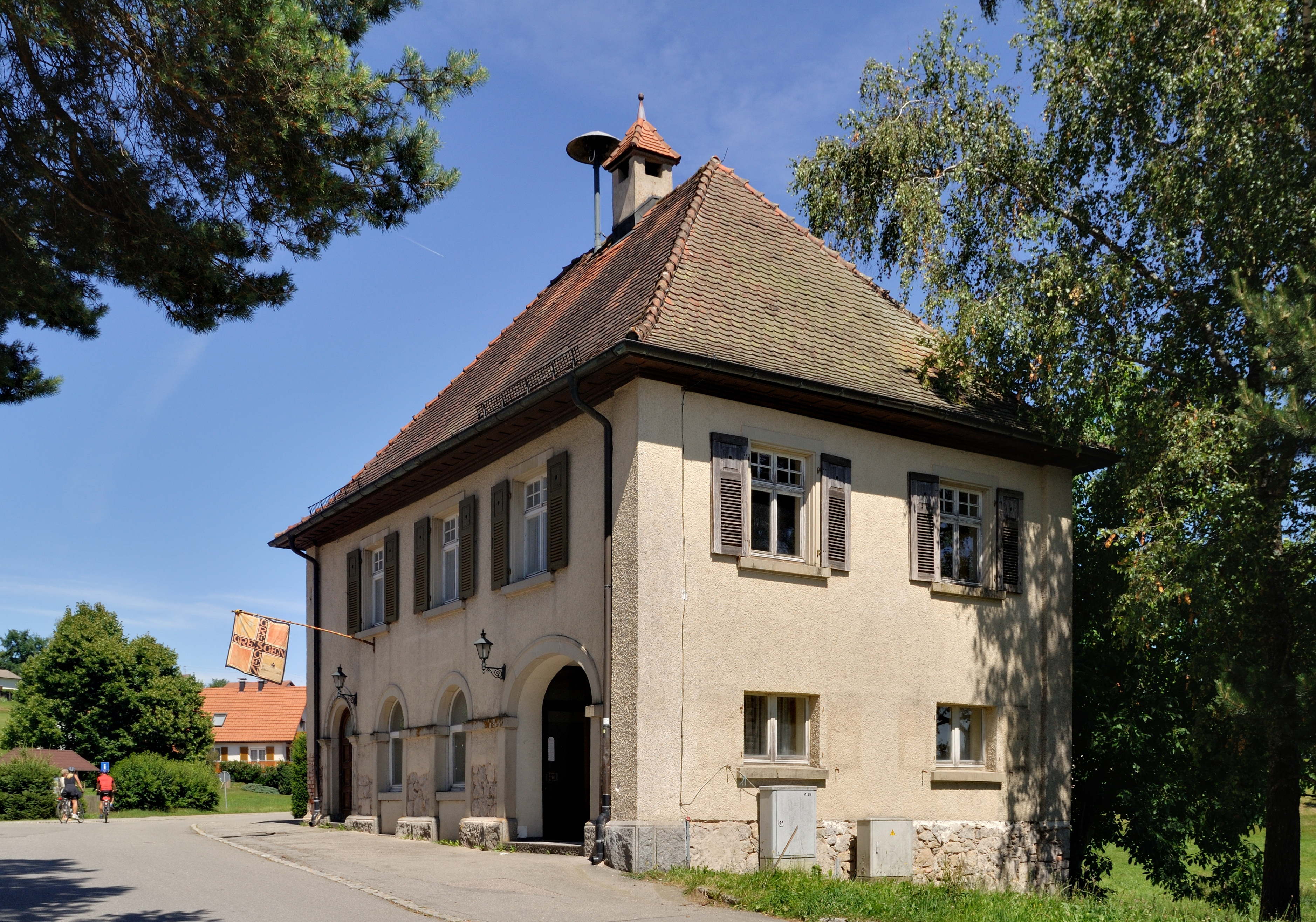 Gresgen: Former Town hall